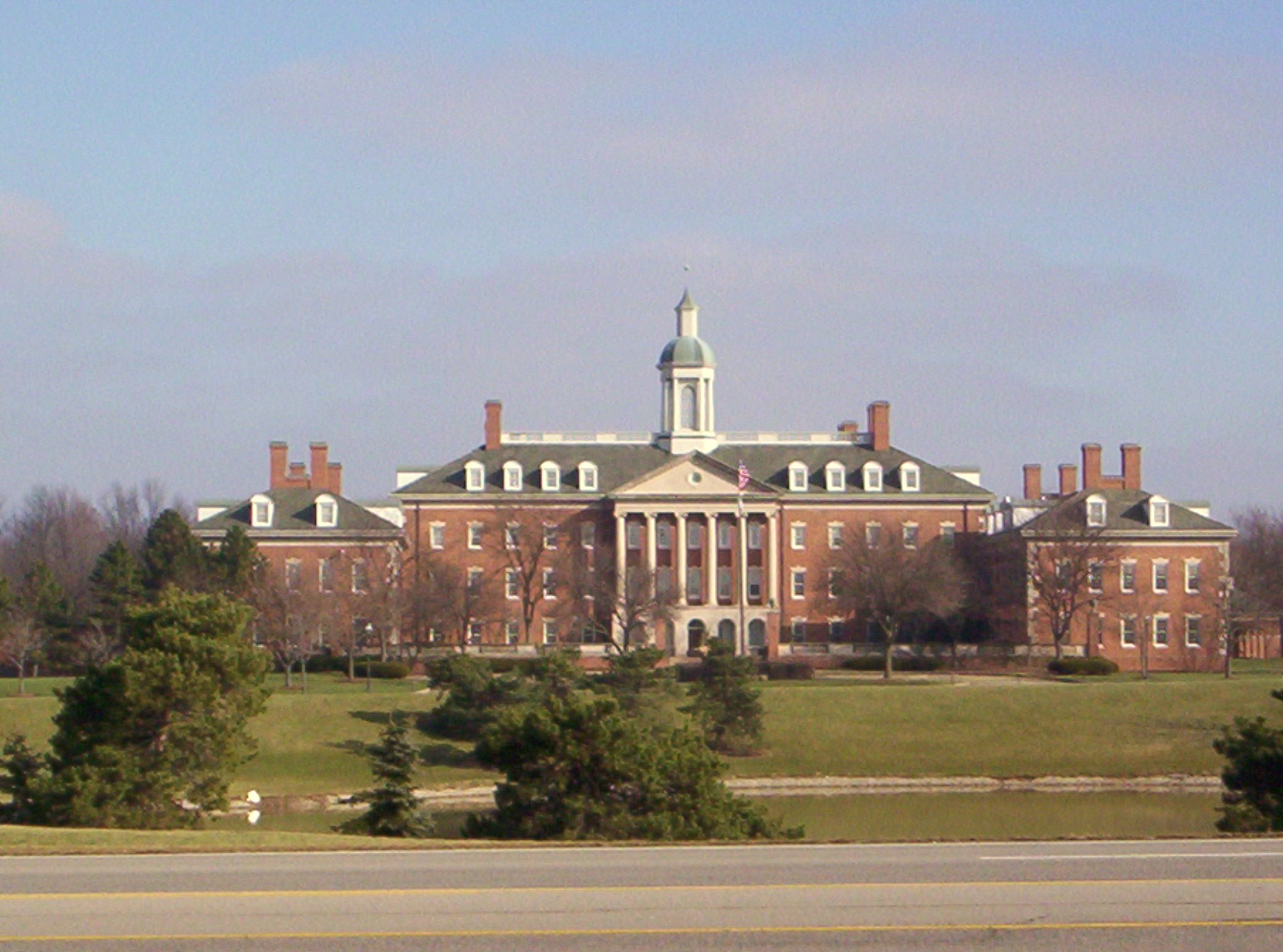 A view of the James W. Kehoe Center for Advanced Learning, a building that is part of North Central State College is located in Shelby, Ohio.